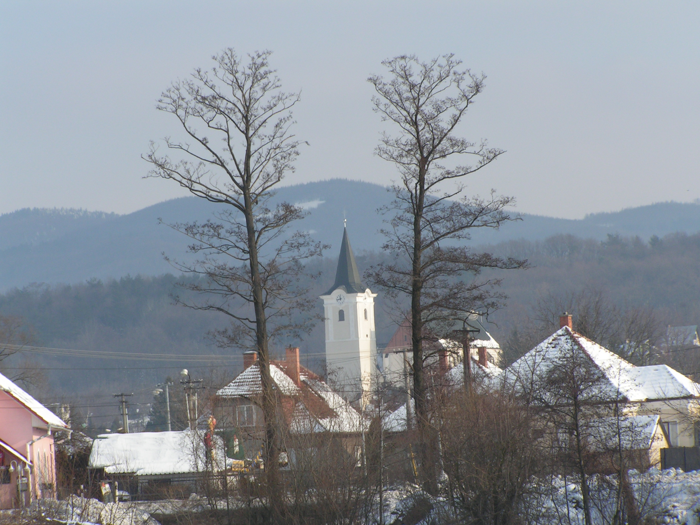 St. Helena's church in Brezany (part of municipality Nedožery-Brezany)